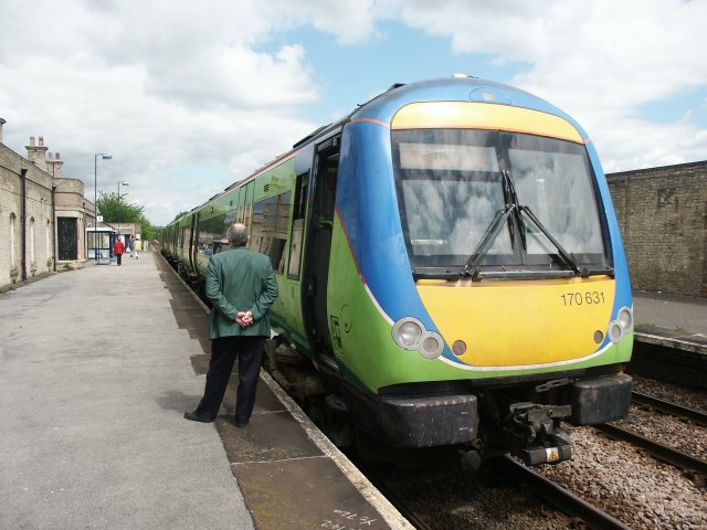 Market Rasen railway station. 170631 waits for the off.